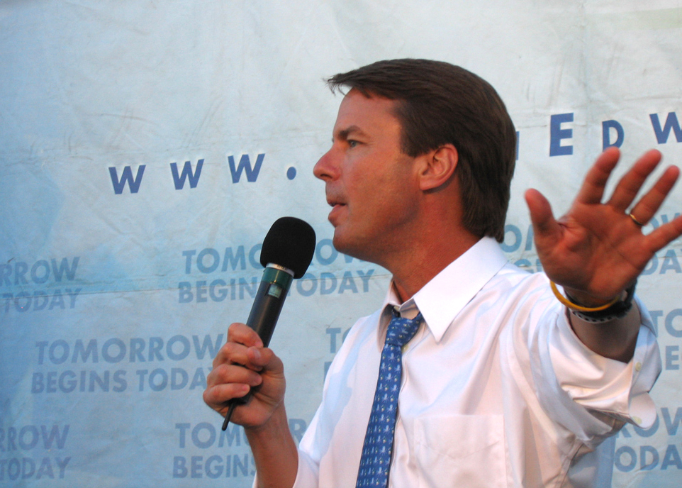 John Edwards at a "Small Change for Big Change" fundraiser in Los Angeles.